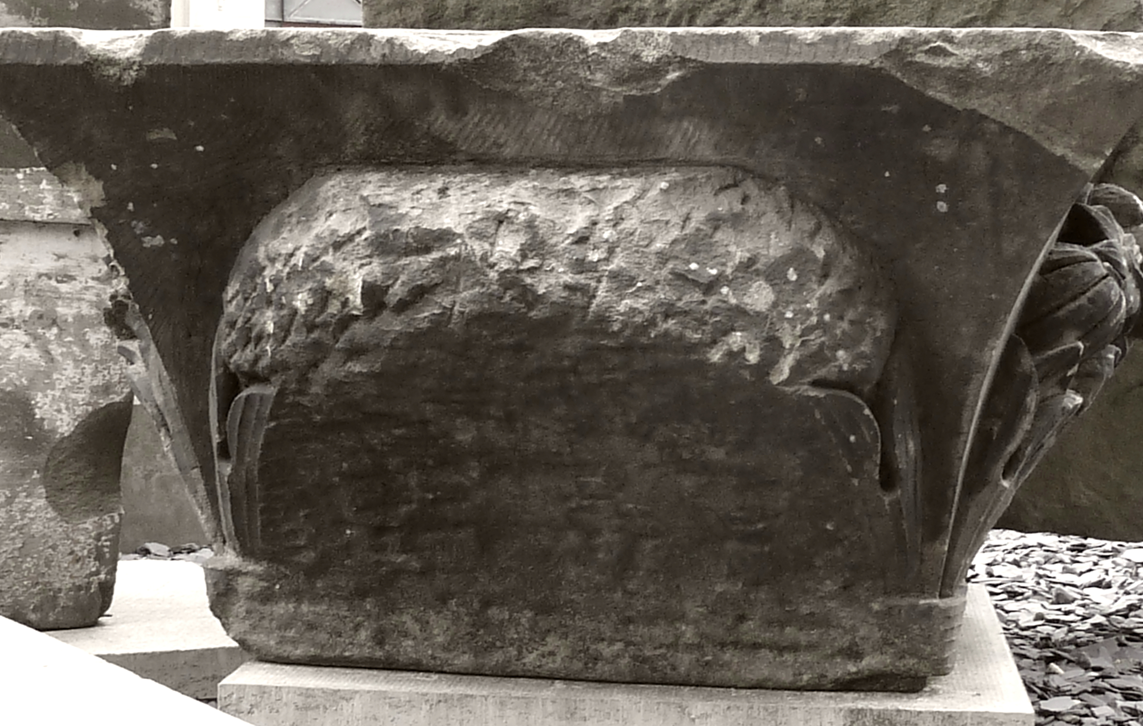 Carved work by Charles Mawer, salvaged from Kirkgate Market, Bradford in 1973 by Bradford City Council. The market was designed by Lockwood & Mawson, completed 1872, demolished 1973. In 2014 seven carved stones and an iron lamp base were rescued from storage by a local action group. They were placed on public display on the steps of Merchant's House, Peckover Street, Little Germany, Bradford, West Yorkshire. Showing the back of the stone which has garlands on the other sides. The stone may have been placed on display upside-down because garlands hang; they don't arch. The back of this stone has a preparation for a garland carving, showing how the sculptor worked.